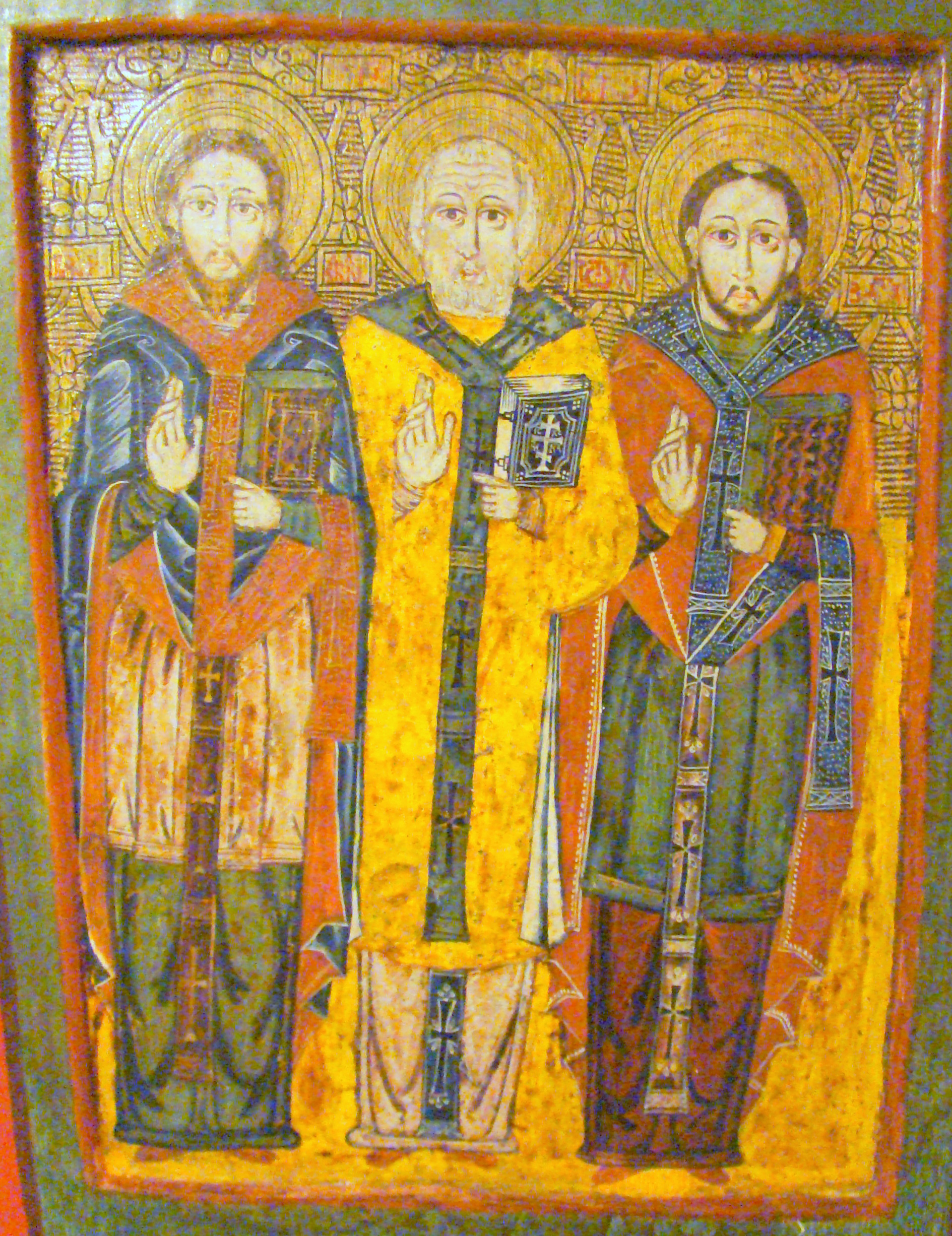 Orthodox icon, 17th century